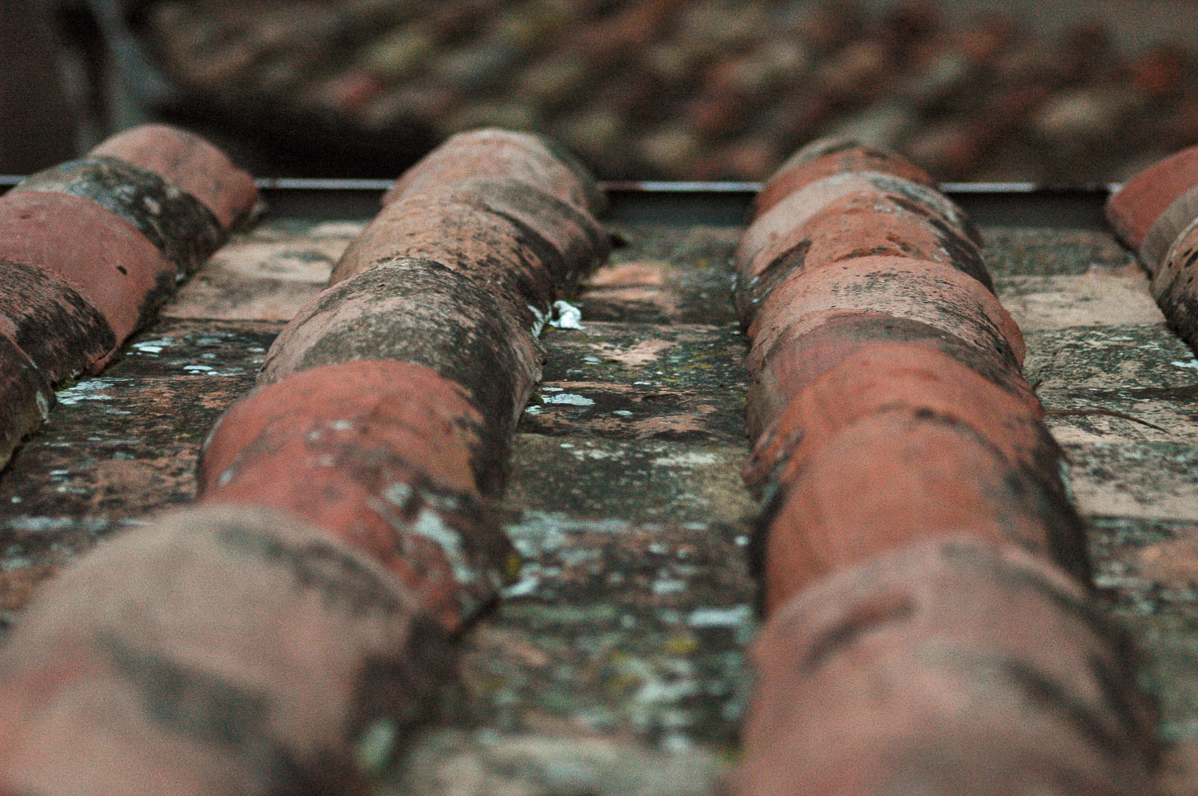 Roman roofing tiles (imbrex and tegula)